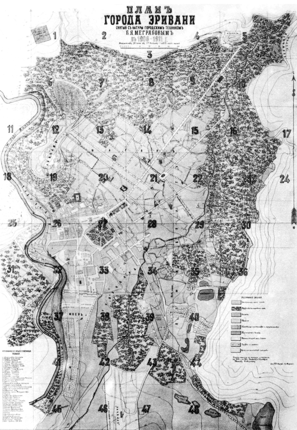 Plan of Yerevan, created by Boris Mehrabyan in 1906-1911.